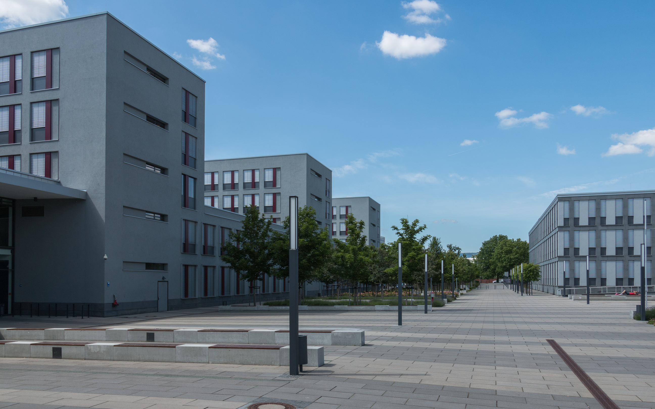 The Judiciary Center in Wiesbaden in der Mainzer Straße hosts several courts.